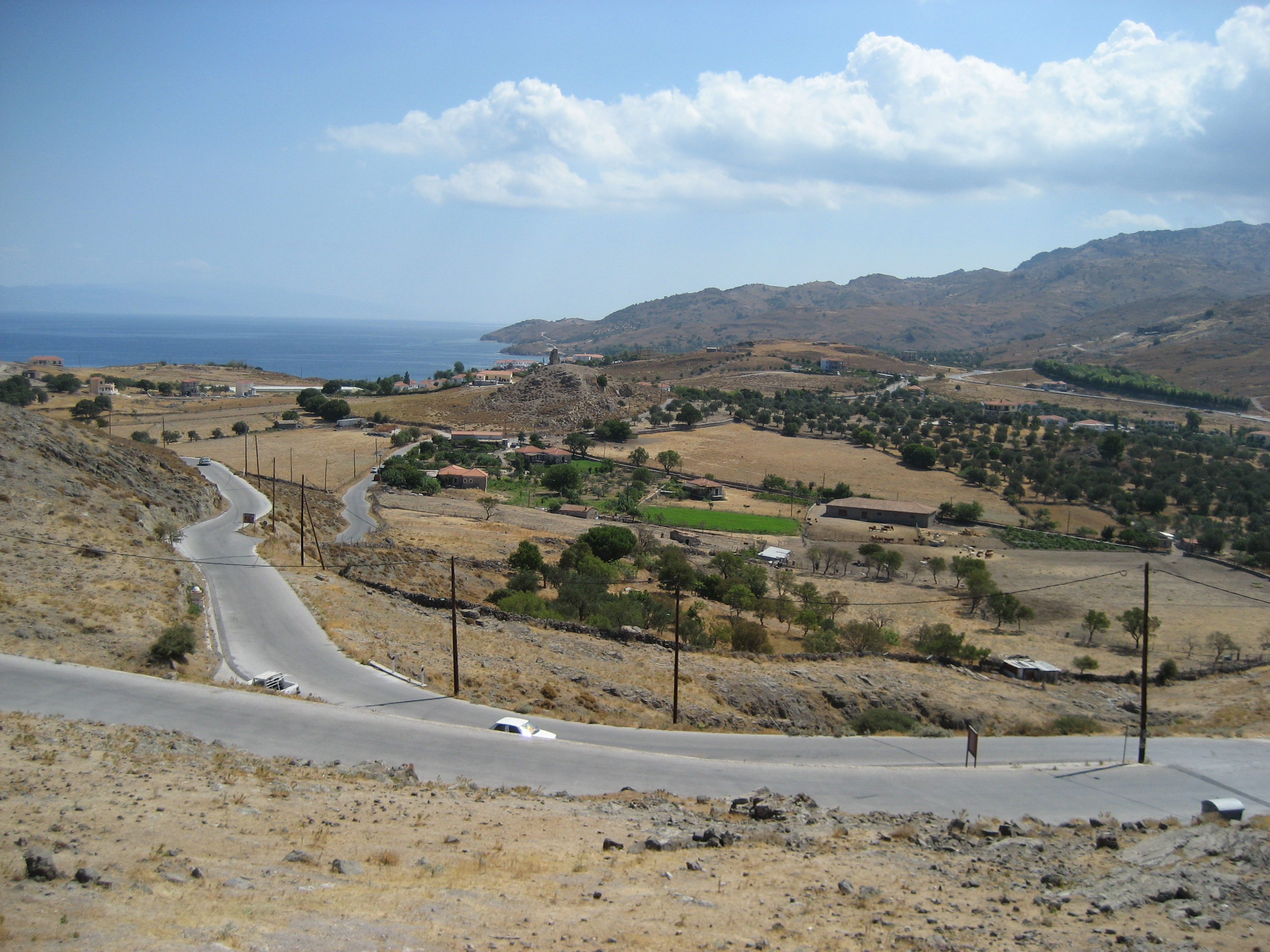 I took this picture myself, on Lesbos Island 2006